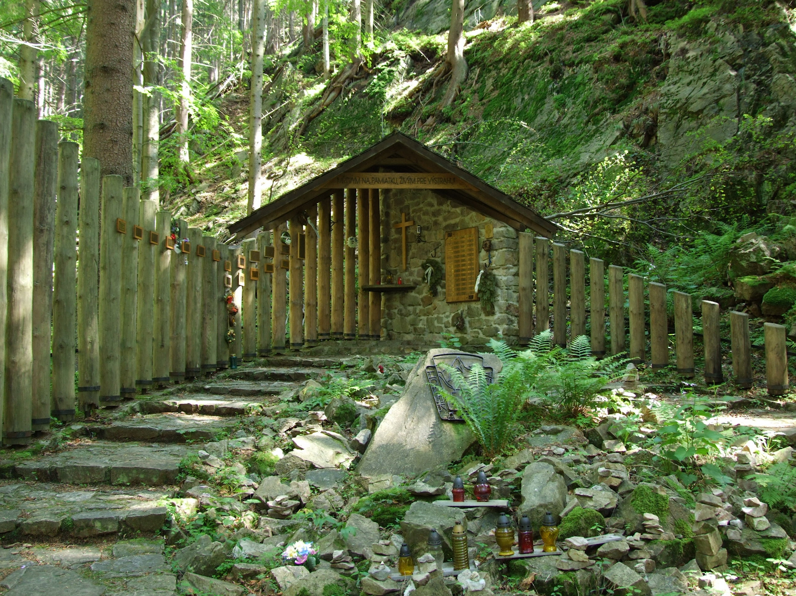 Malá Fatra - symbolic cemetery